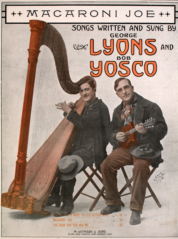 Portrait of George Lyons and Bob Yosco, from the cover of their sheet music "Macaroni Joe".